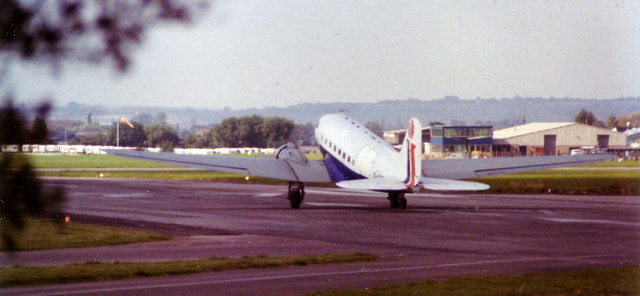 Airliner at Staverton, 1978 This is an Intra Airways Dakota, lining up on runway 27 for its take off run for a flight from Gloucester/Cheltenham airport to the Channel Islands in 1978.